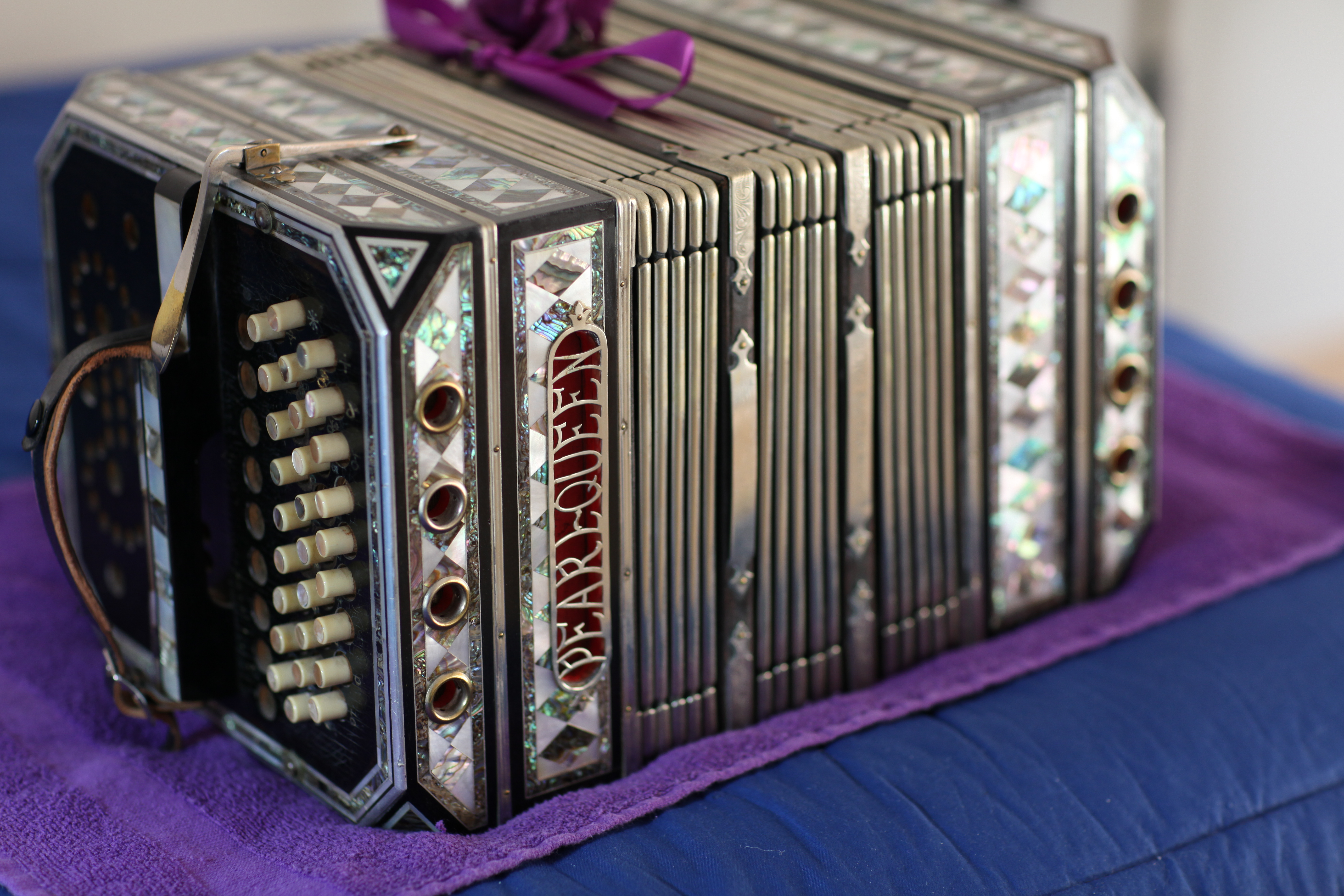 A beautiful Pearl Queen (Diamond Deluxe) Chemnitzer Concertina.